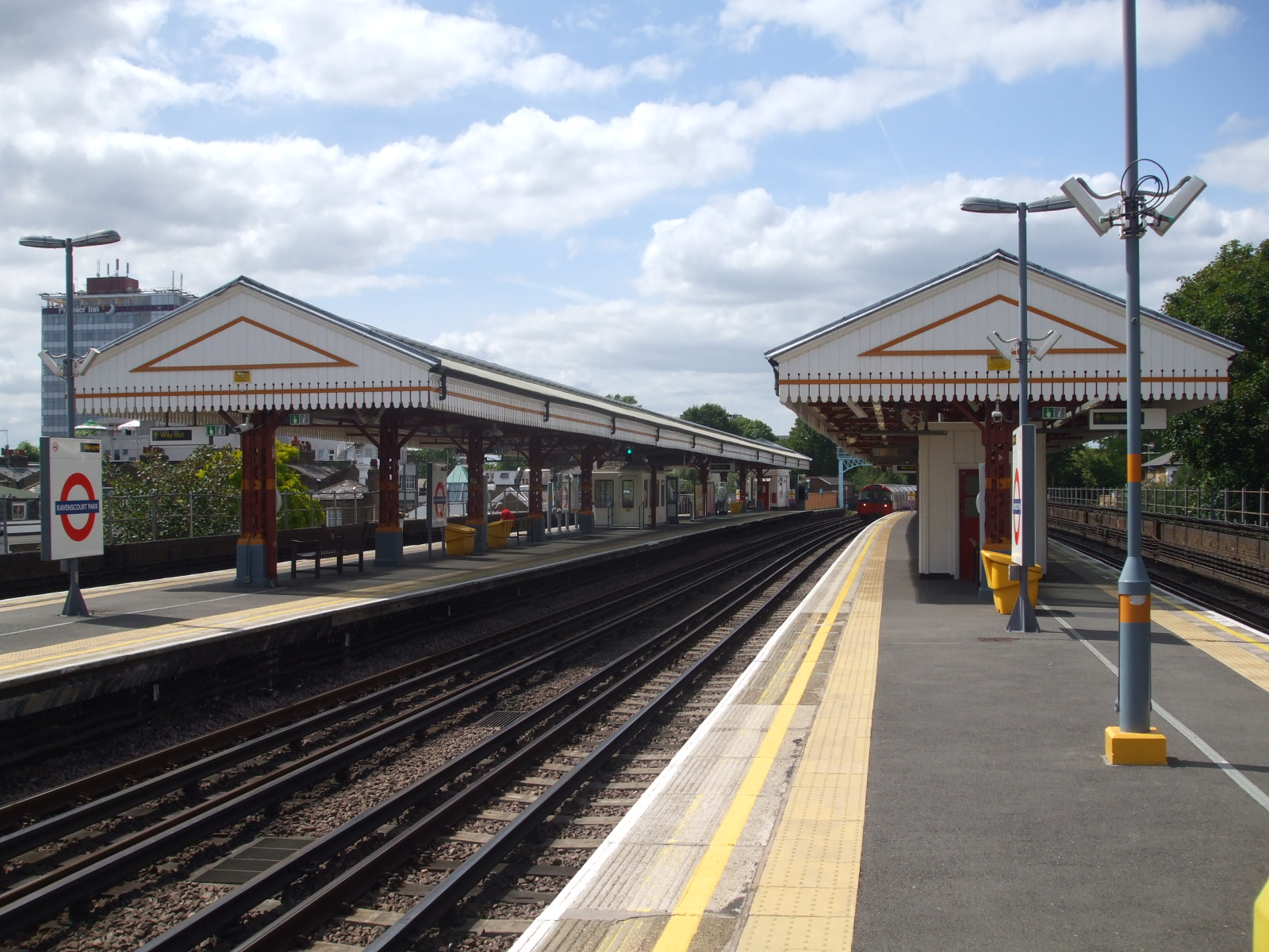 Ravenscourt Park tube station eastbound theoretical Piccadilly line platform looking west. Although platforms are provided, Piccadilly line trains run fast through the station, using the centre pair of tracks.